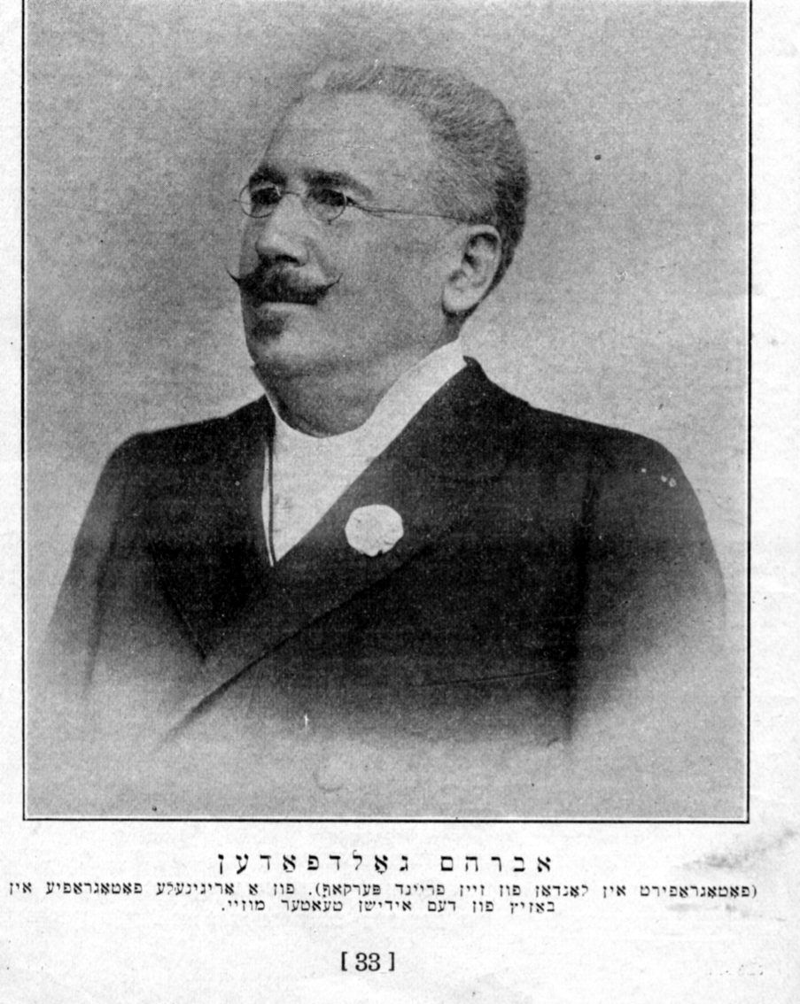 Abraham Goldfaden In London